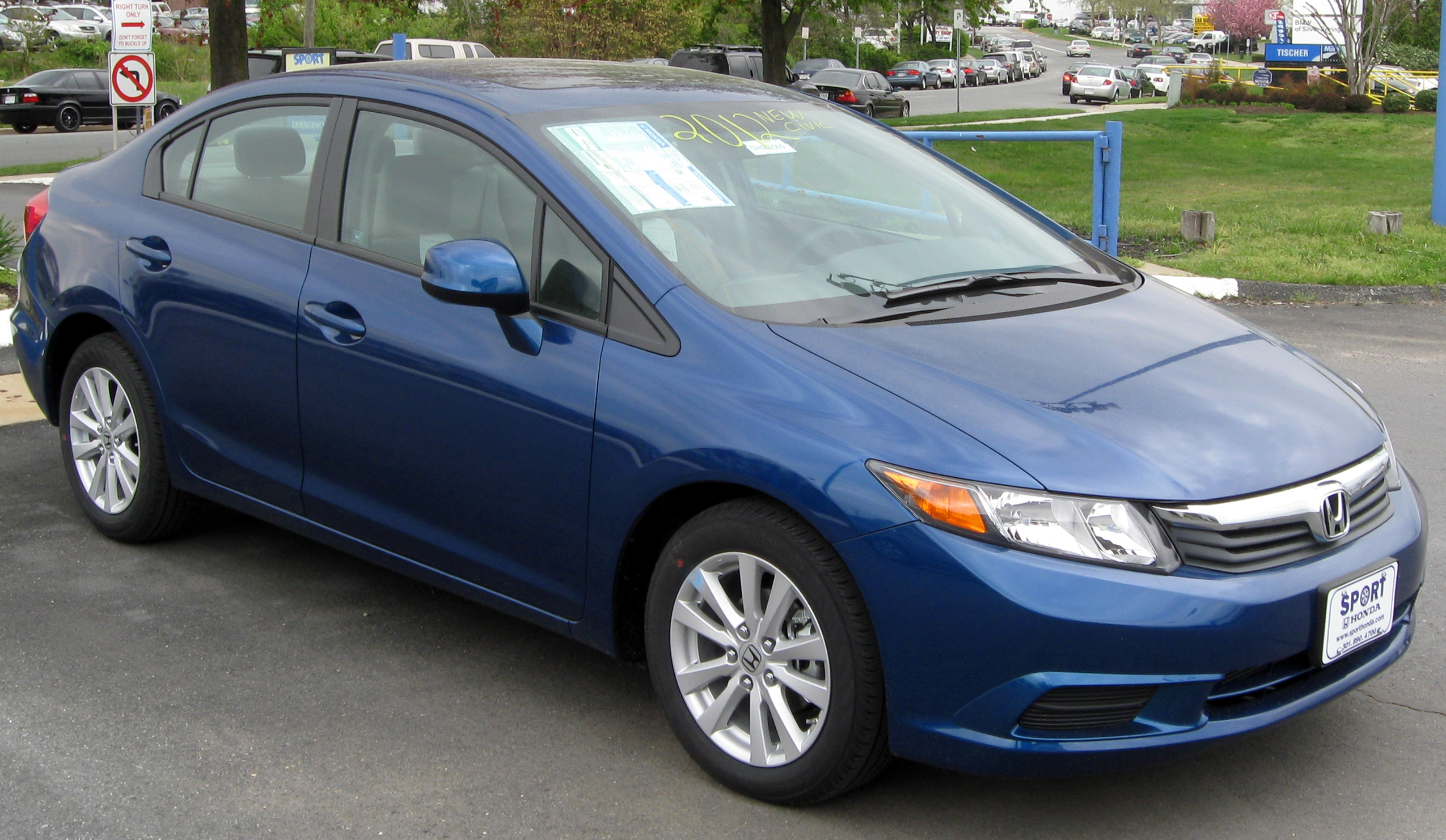 2012 Honda Civic photographed in Silver Spring, Maryland, USA.